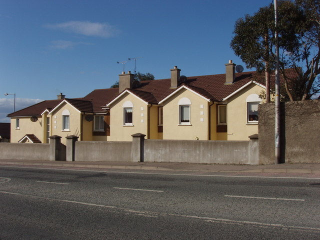 Houses, Newtown Road, Wexford Newtown Road is the R769 which continues at the Wexford Bypass as the N25 to New Ross.